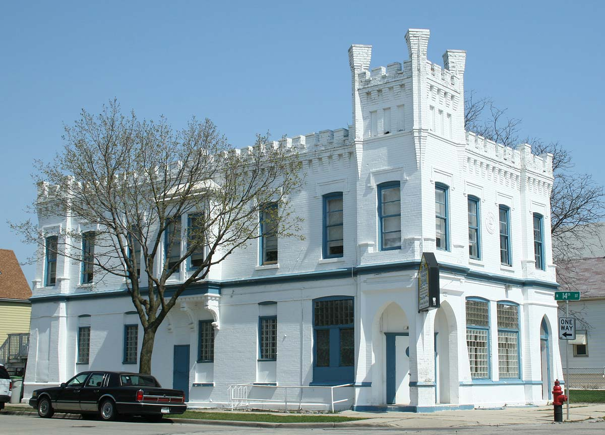 Pabst Brewery Saloon, National Registered Historic Place, Milwaukee, Wisconsin.